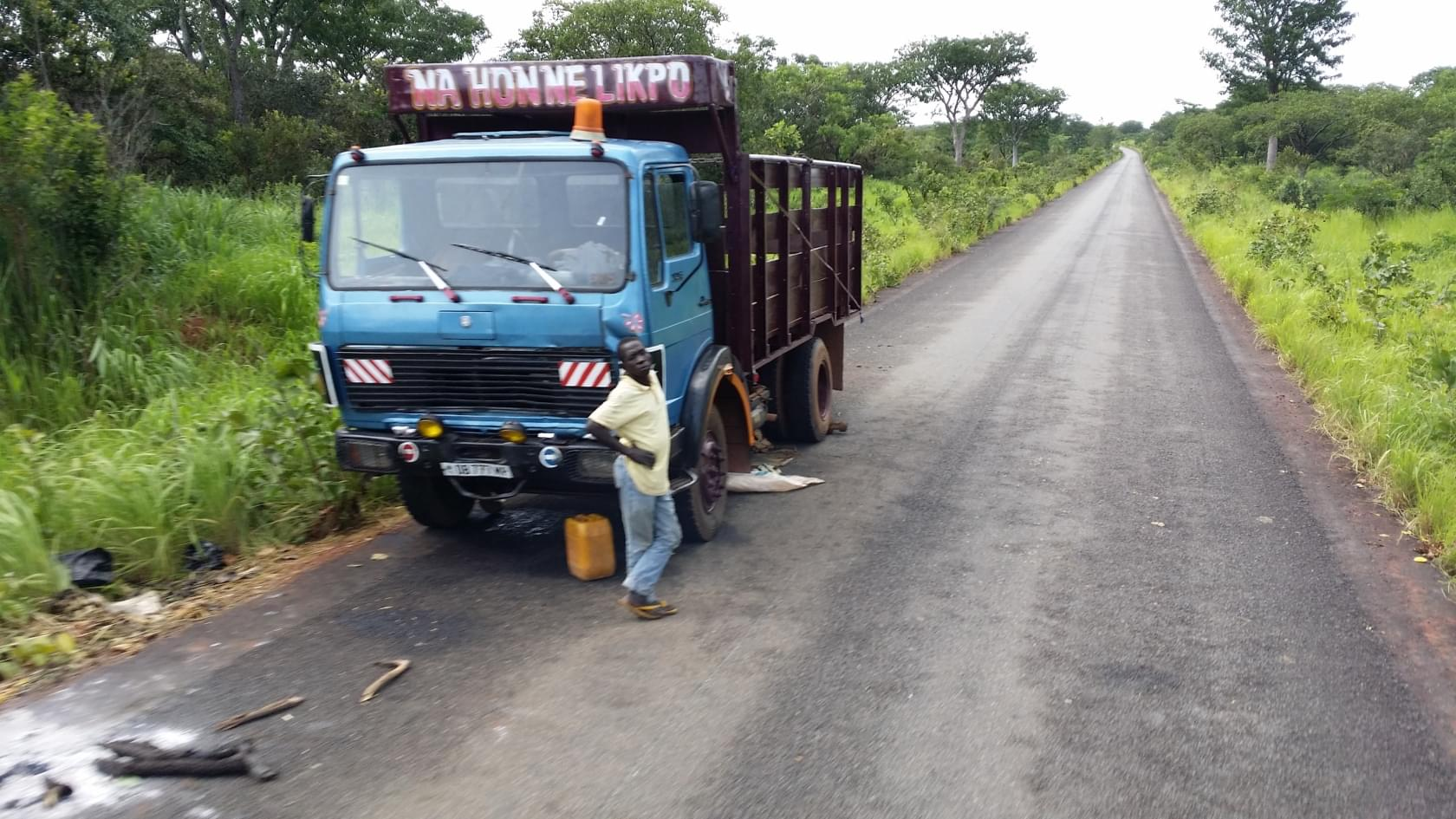 Broken truck on a road between Boali and Bandoro. This is an image with the theme "Africa on the Move or Transport" from: Central African Republic